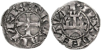 Spain, Navarra. Theobald II of Navarre (Teobaldo). 1253-1270. AR Dinero (19mm, 1.13 gm, 8h). :TIOBALD' REX, cross +DE NAVARIE:, castle with three towers, crescent below (rotated 270¾ from legend). ME 2051; Burgos 1207. VF, toned. Rare.